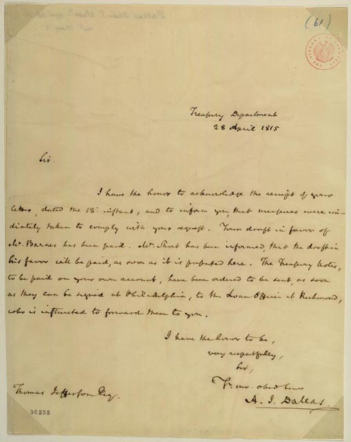 Alexander James Dallas to Thomas Jefferson, April 28, 1815, Manuscript letter.